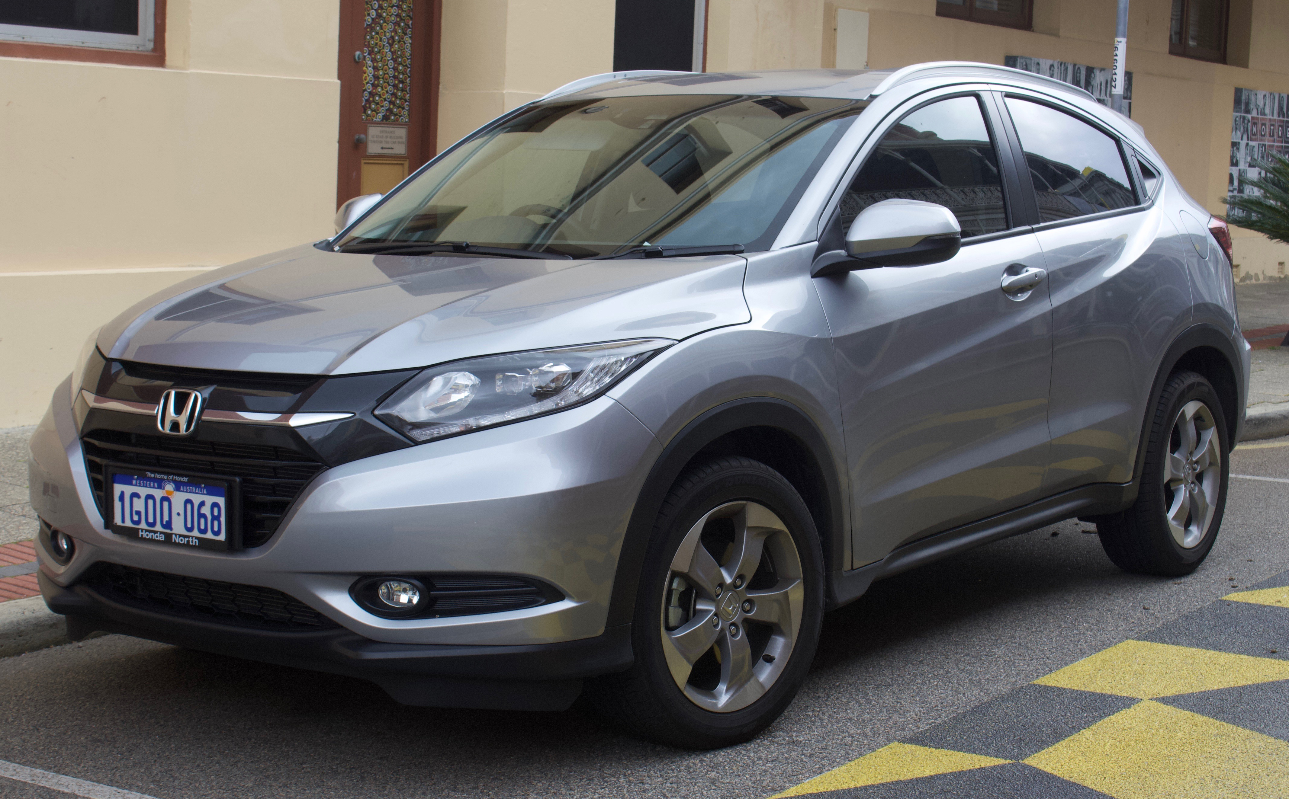 2018 Honda HR-V VTi-S wagon. Photographed in Fremantle, Western Australia, Australia.